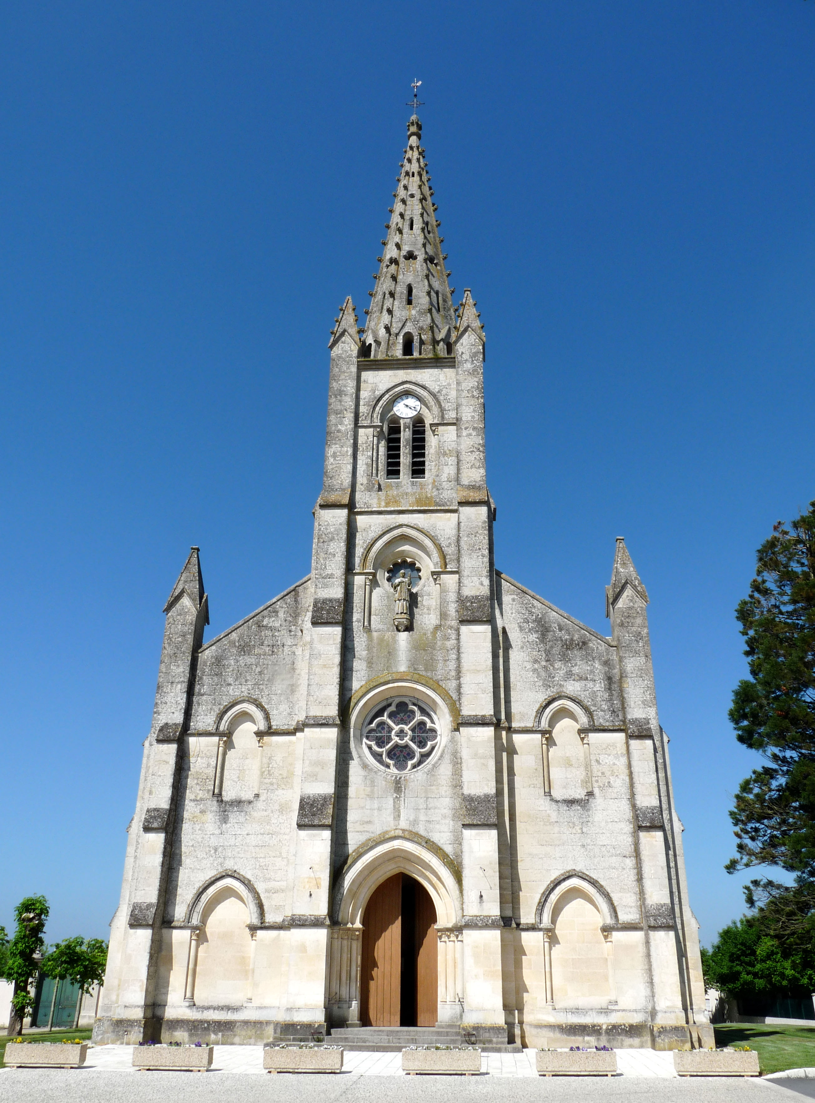 Church of Le Vanneau (Deux-Sèvres)